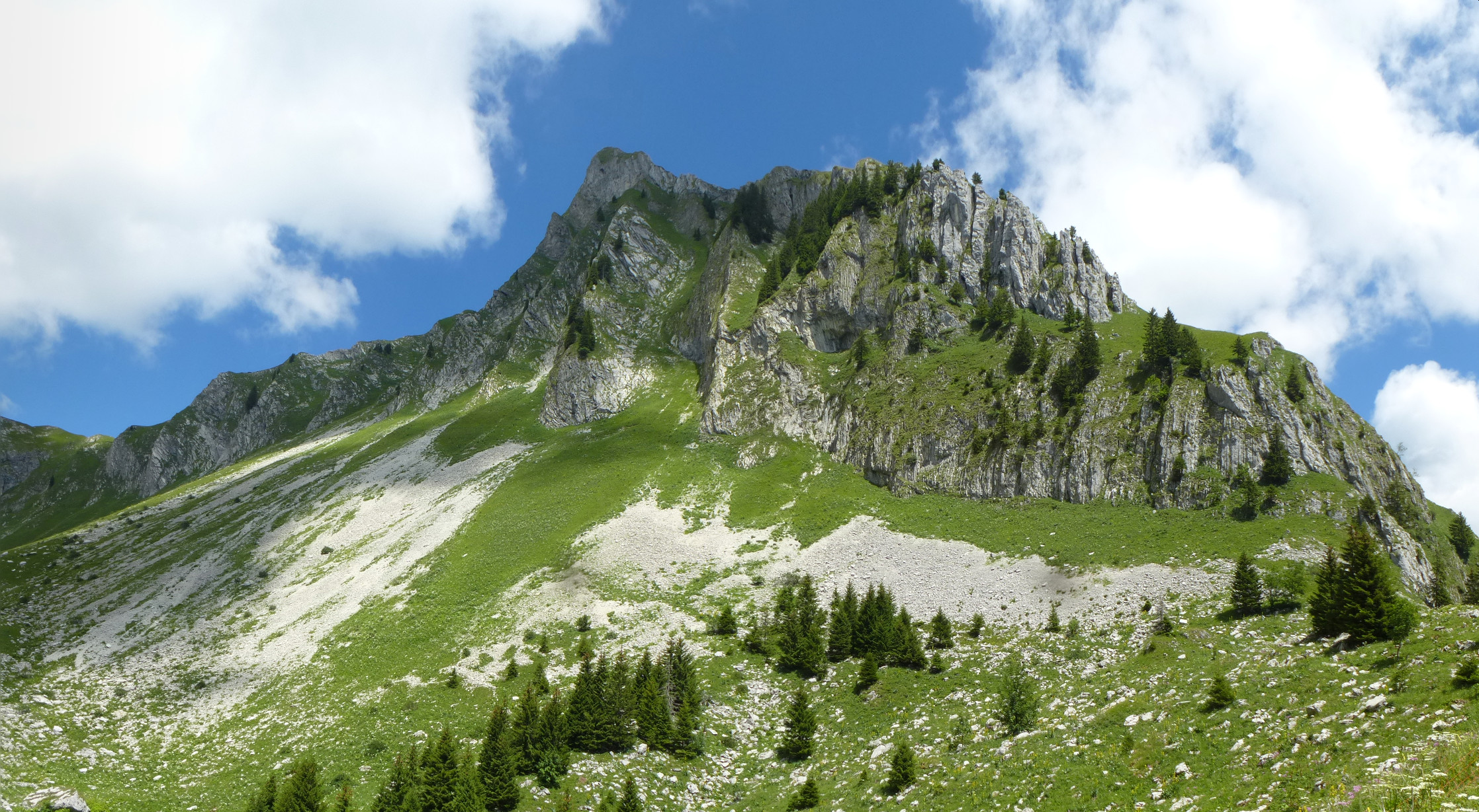 Schopfenspitz view from east/Maischüpfen